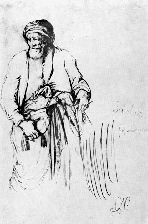 Shylock, drawing of Cyprian Kamil Norwid}